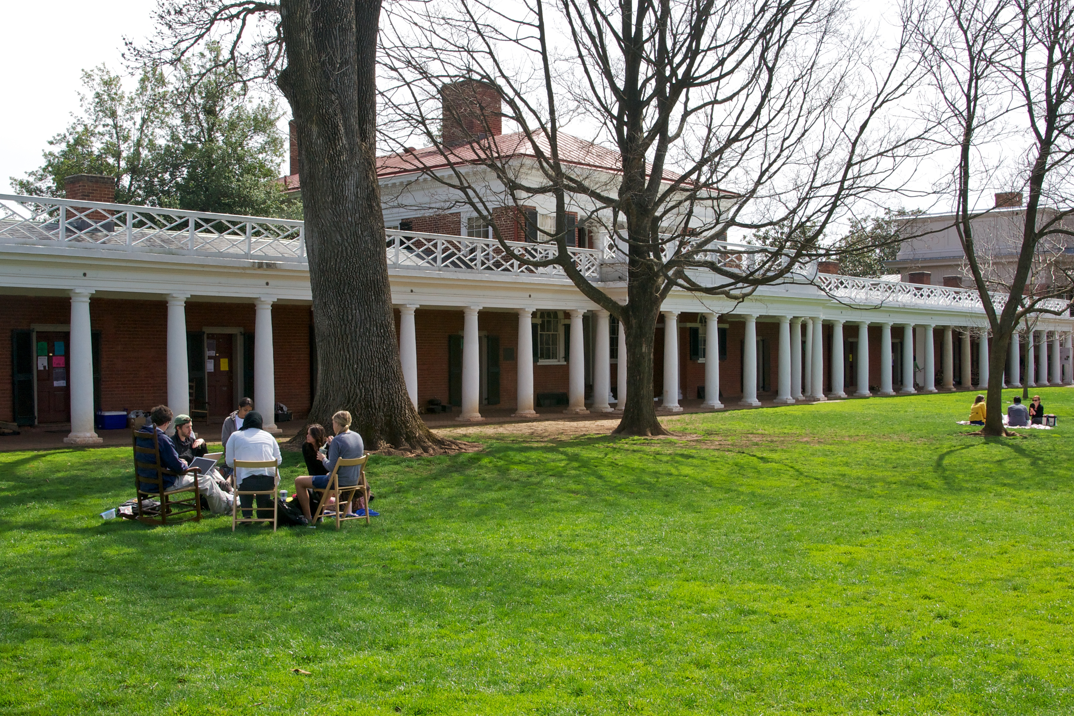 Pavilion VIII (and the rear of Pavilion X at the right edge of the picture) at the Lawn of the University of Virginia